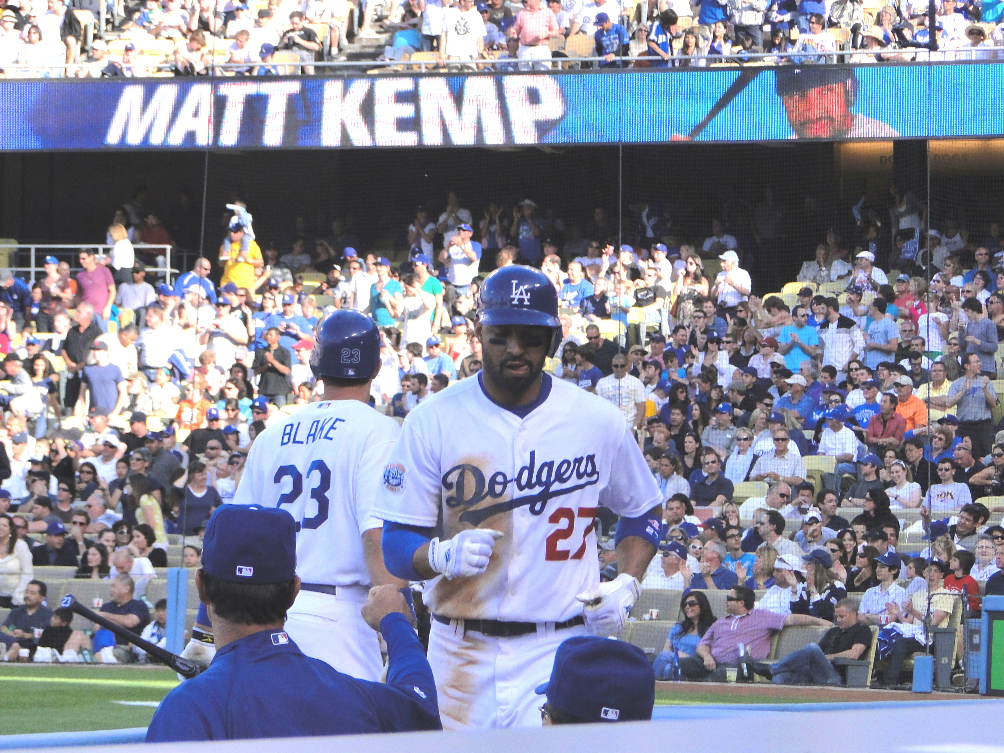 Description Matt Kemp returns to the dugout after hitting a home run against the Detroit Tigers on 22 May 2010 Date22 May 2010SourceI (Cbl62 (talk)) created this work entirely by myself.AuthorCbl62 (talk) 01:21, 25 May 2010 . . Cbl62 . . 3,456×2,592 (3.01 MB) Matt Kemp returns to the dugout after hitting a home run against the Detroit Tigers on 22 May 2010